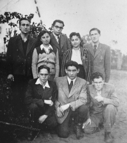 Members of Irgun Brith Zion in Kovno ghetto, 1943